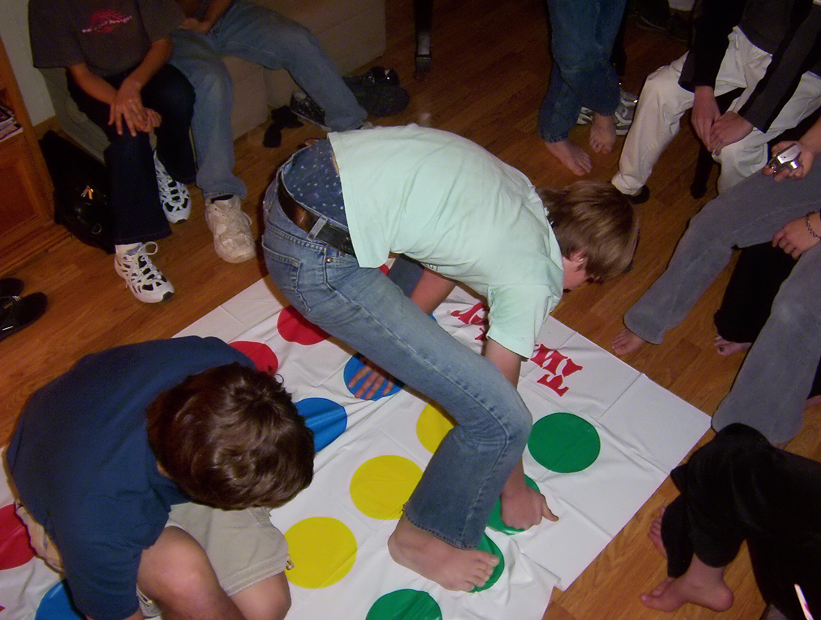 Yoga, Twister